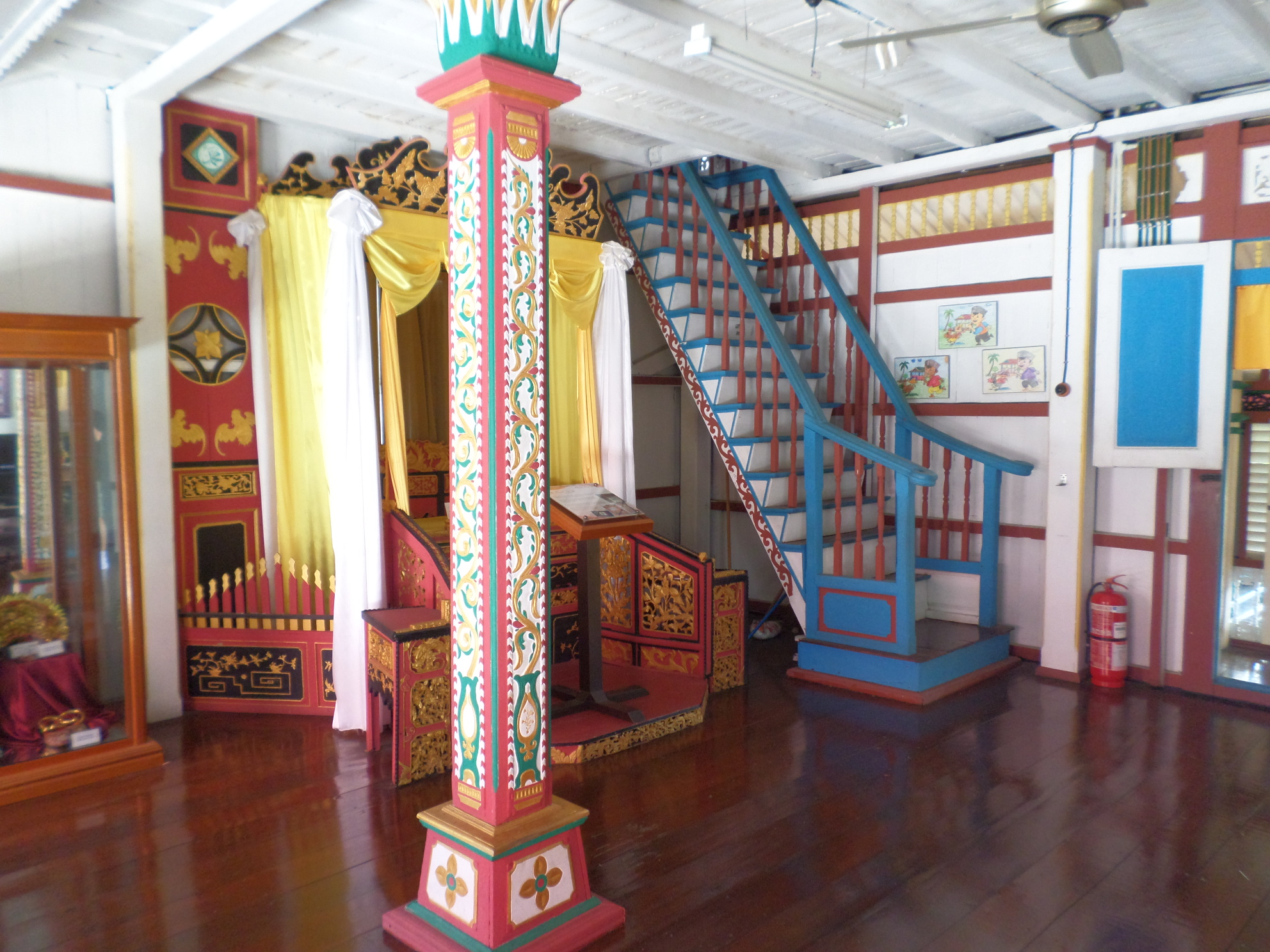 Demang Abdul Ghani Gallery, Merlimau, Jasin, Melaka, MalaysiaBahasa Melayu: Rumah Penghulu Abdul Ghani, Merlimau, Jasin, Melaka, Malaysia